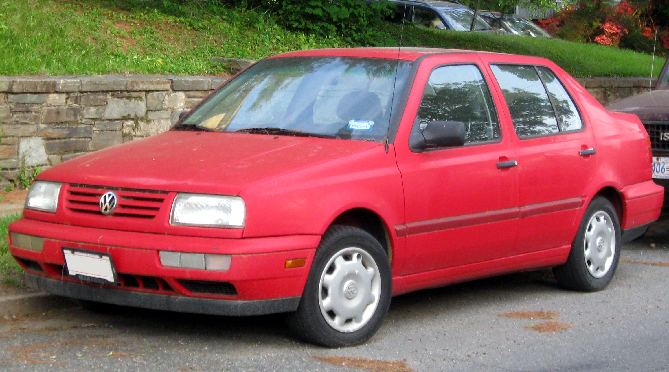 1996-1998 Volkswagen Jetta photographed in Washington, D.C., USA.